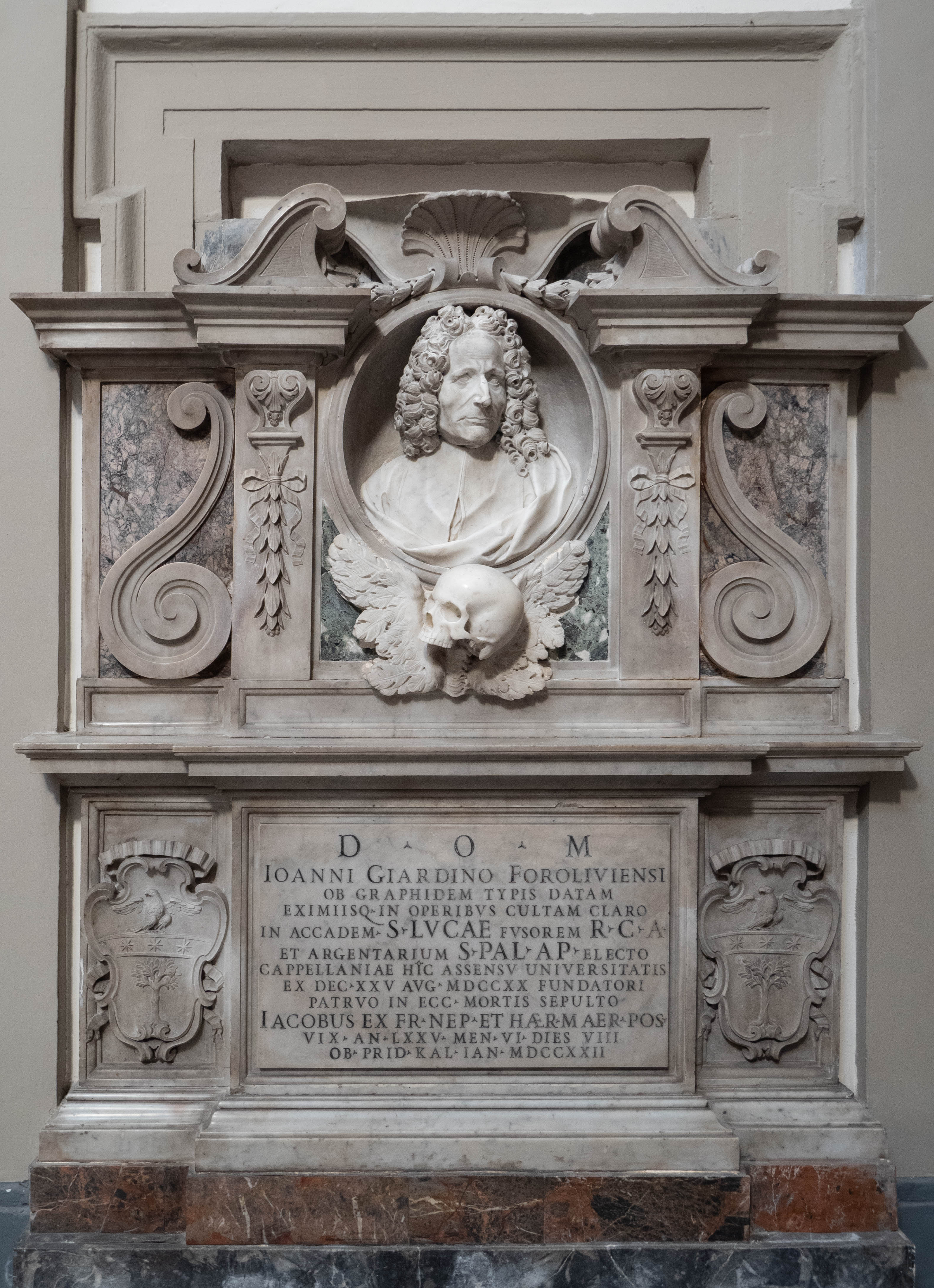 Grave Monument of Giovanni Giardino in the church Sant' Eligio degli Orefici in Rome